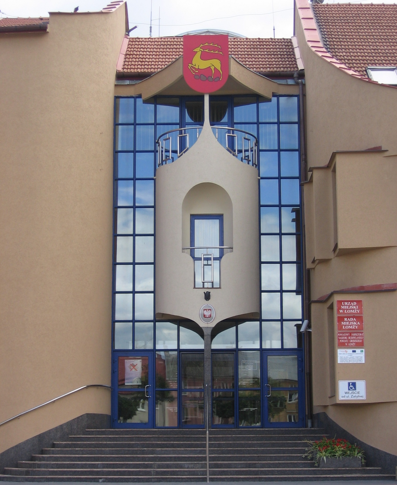 New town hall of Łomża